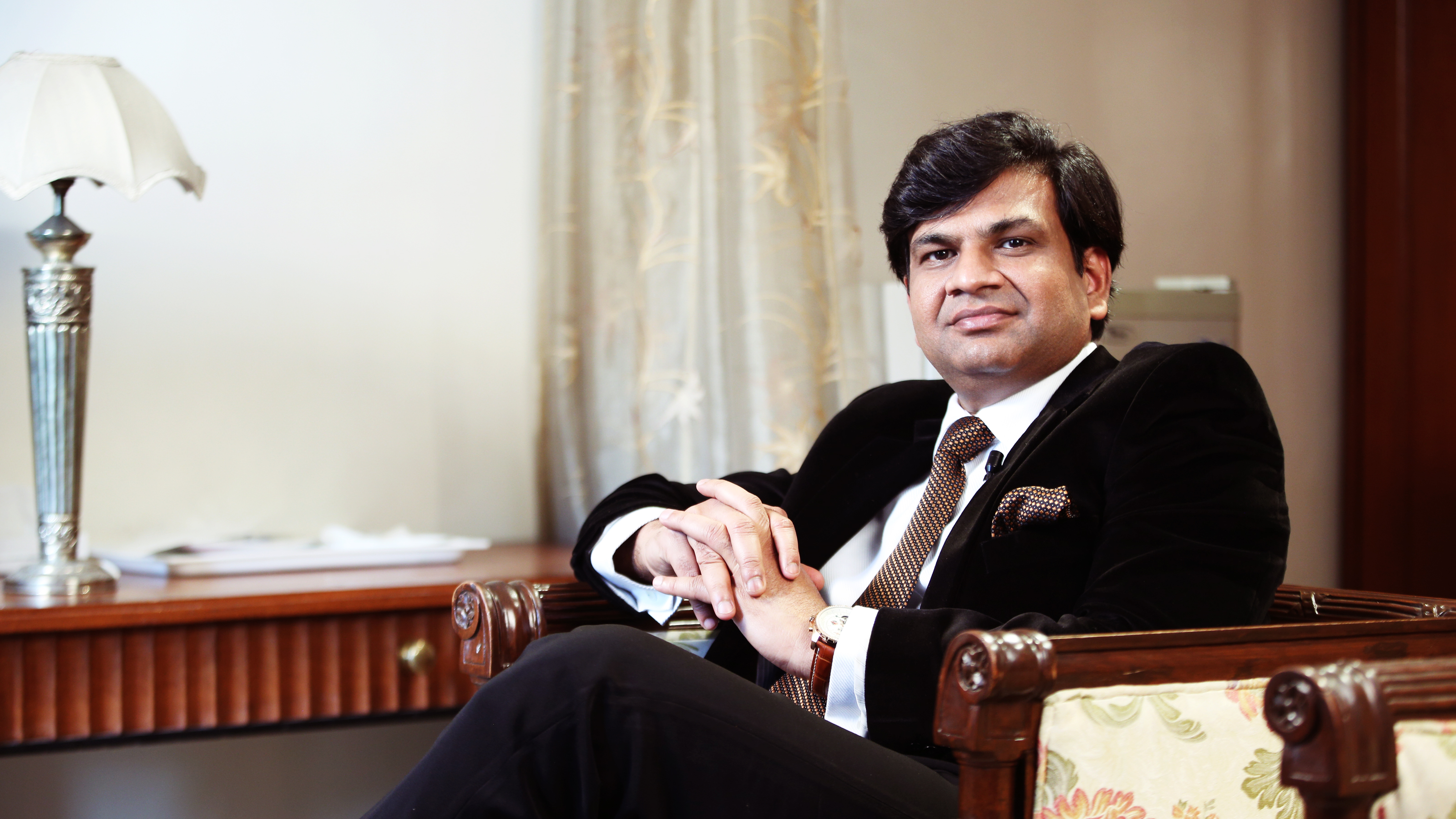 At his office